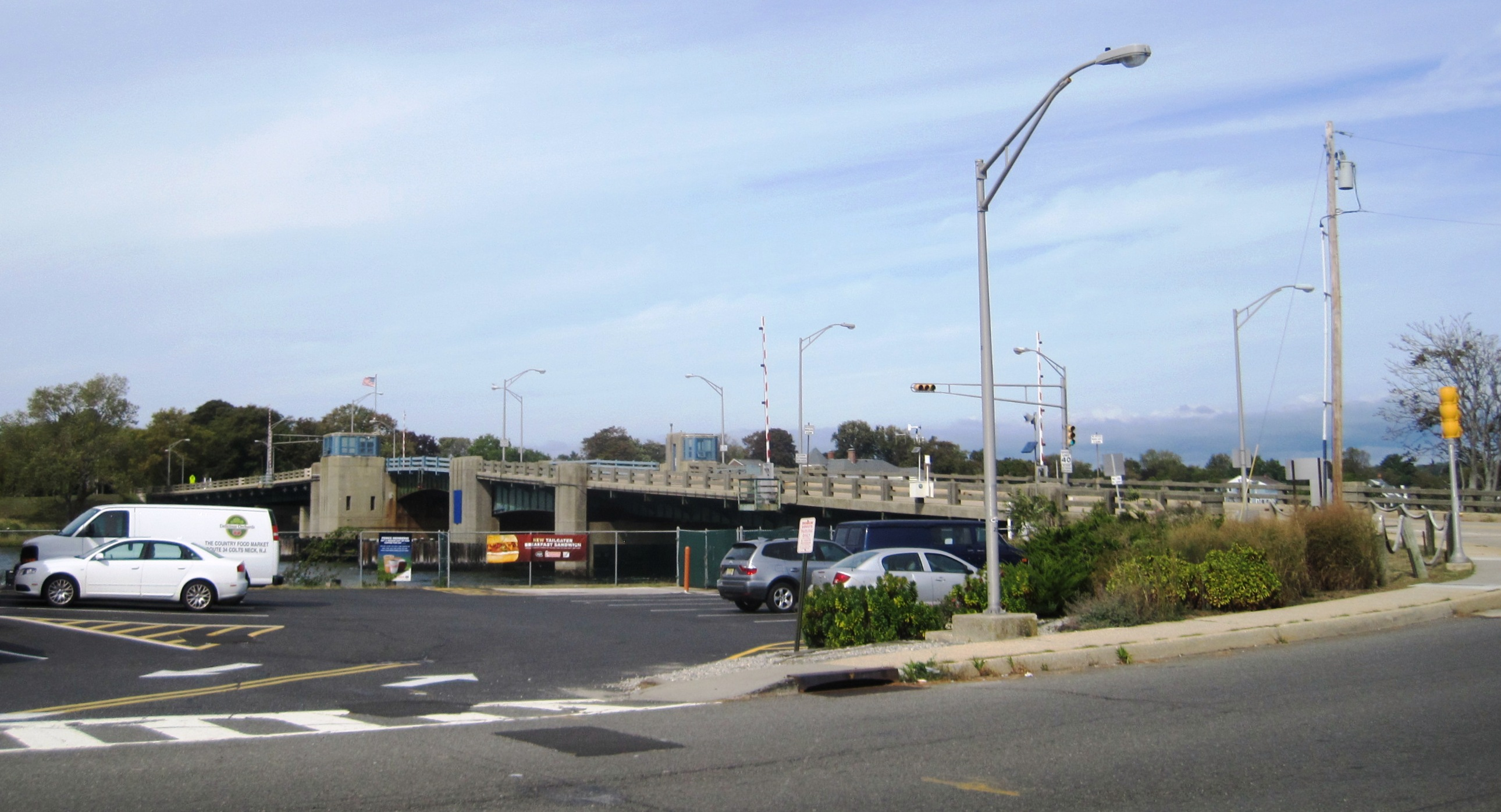 Photo showing the drawbridge that carries County Route 520 over the Shrewsbury River from Rumson to Sea Bright, New Jersey. Photo taken from New Jersey Route 36 in Sea Bright.